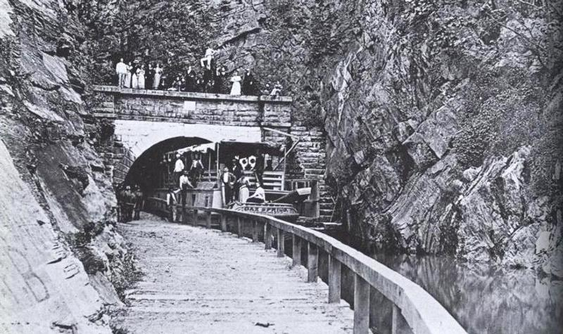 Boat in Paw Paw Tunnel